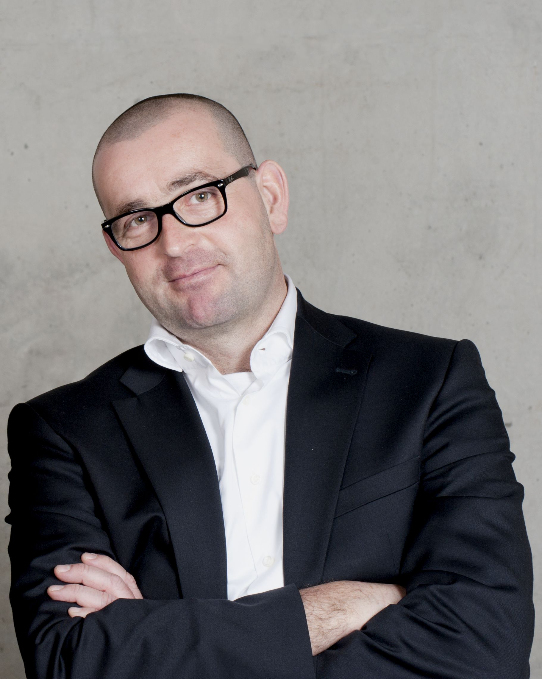 Thomas Schlager-Weidinger (2012)